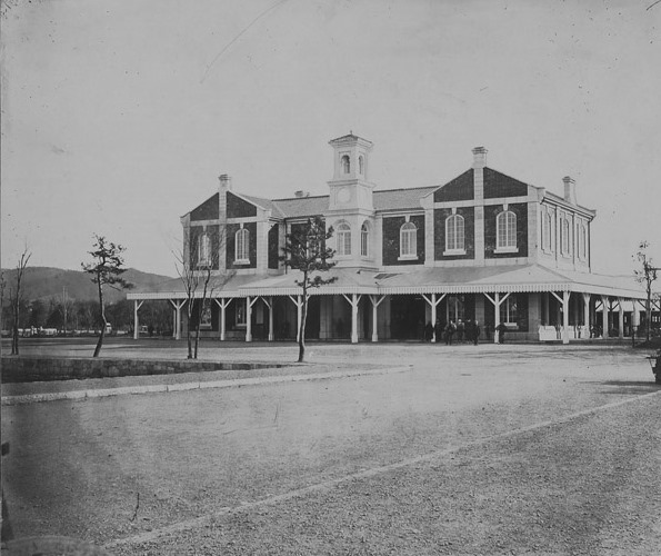 Kyoto Station building (built in 1877 and replaced in 1914), Kyoto, Japan